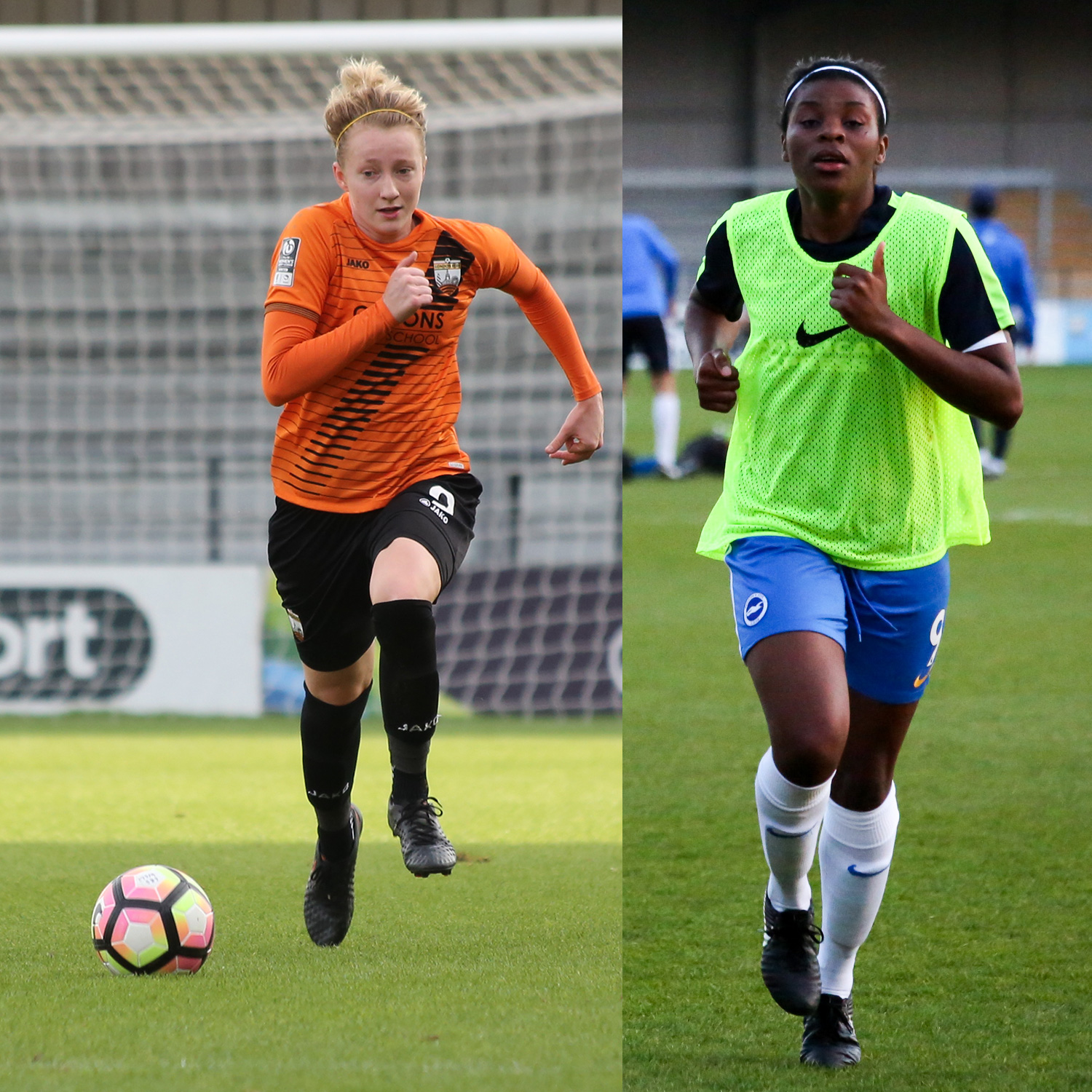 2016 FA WSL 2 joint top goalscorers - Jo Wilson (L - October 2017) & Ini Umotong (R - April 2018)